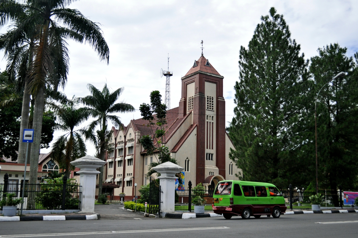 Protestant church of Zebaoth at Bogor